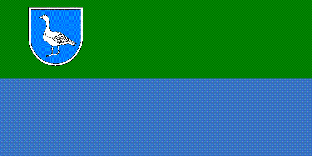 Flag of Anija Parish between 1993 and 2002.